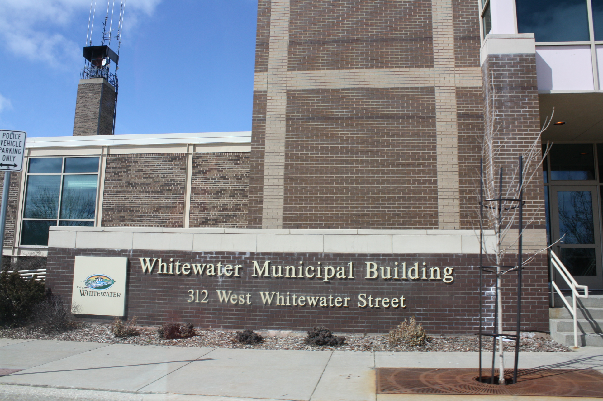 The municipal building for Whitewater, Wisconsin.